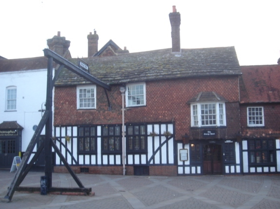 The George Hotel, High Street, Crawley, West Sussex, England. Old coaching inn at the centre of Crawley life for several centuries. 15th/16th-century with extension in the 18th and 19th centuries. Listed at Grade II* by English Heritage (ref #363355)